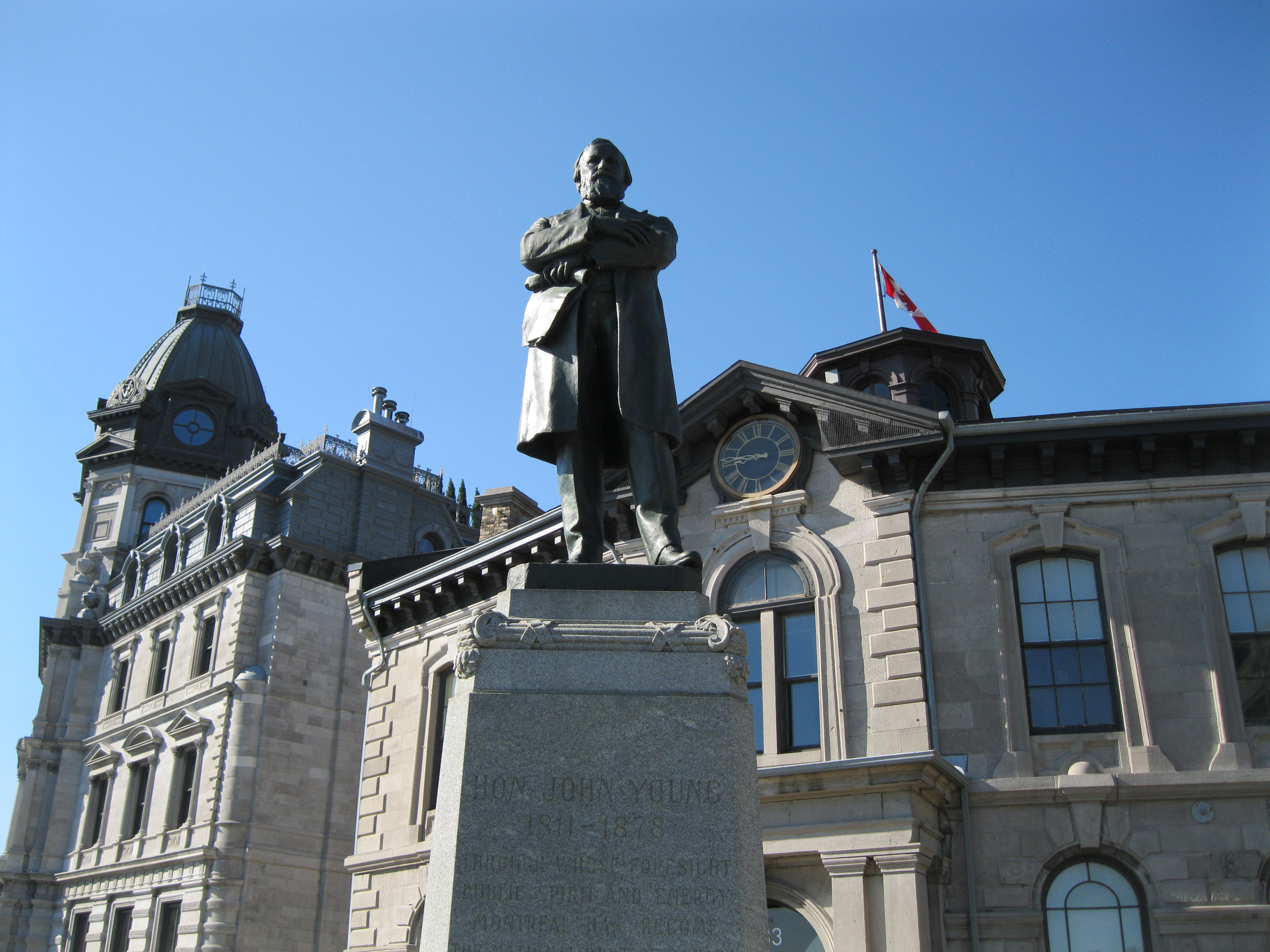 John Young's monument, Old Montreal.